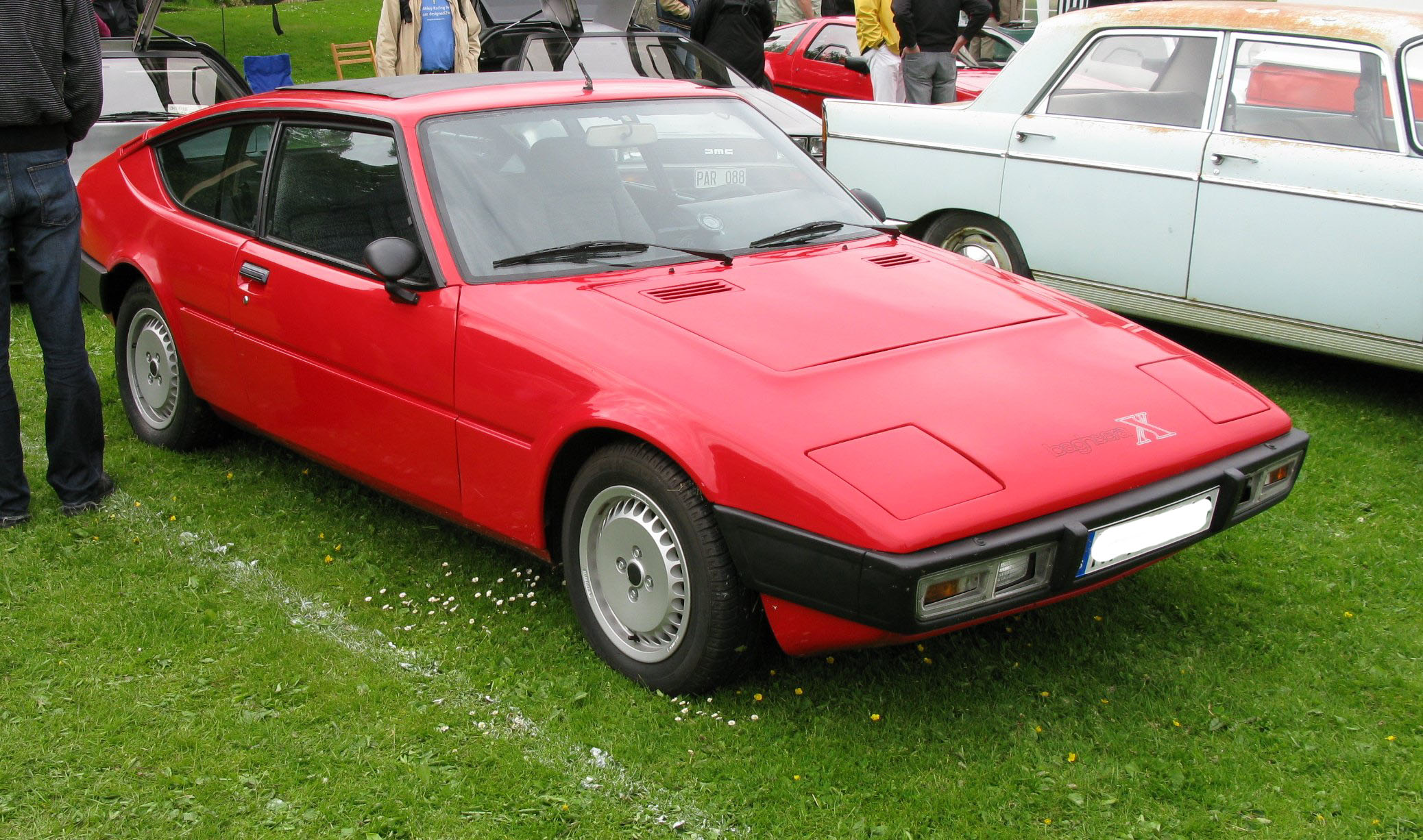 Matra-Simca Bagheera. Event: Tjolöholm Classic Motor 2009